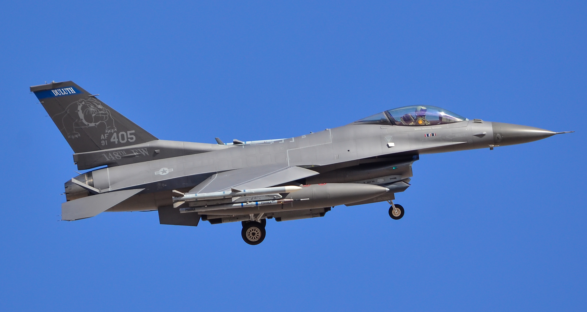 Duluth Air National Guard Base, Minnesota Las Vegas - Nellis AFB (LSV / KLSV) USA - Nevada, September 15, 2017 Photo: TDelCoro